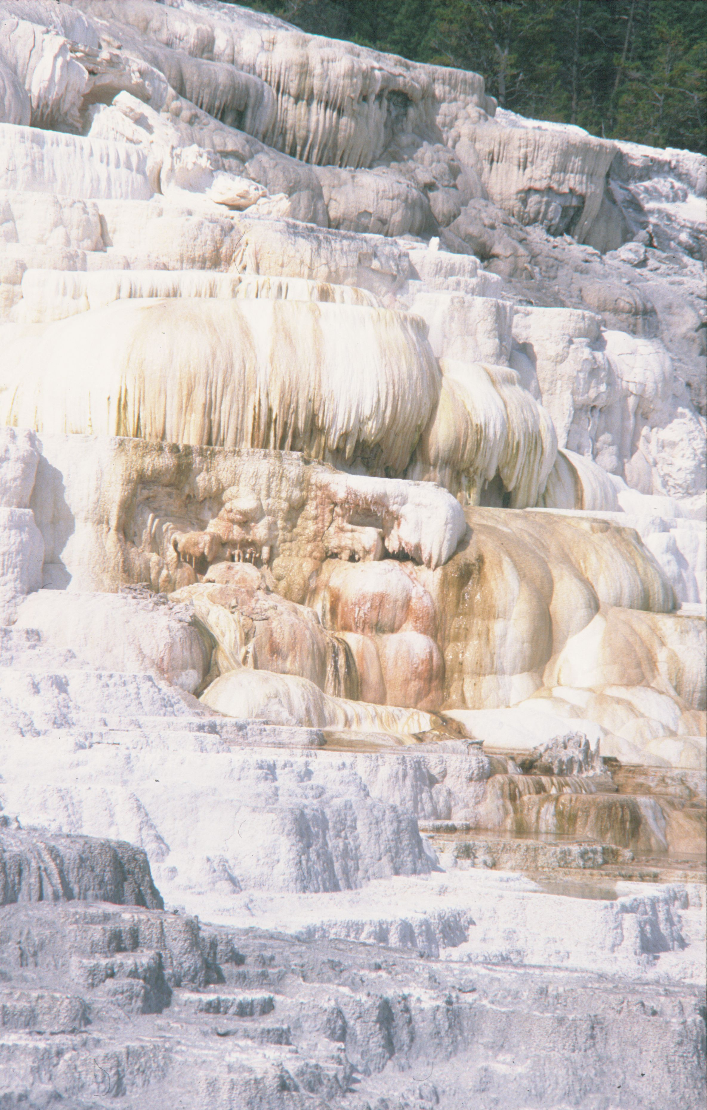 travertine terraces of Mammoth Hot Springs, Yellowstone National Park, Wyoming, U.S.A.